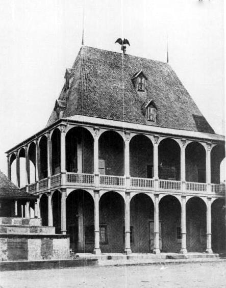 Tranovola (Silver Palace) in the Rova of Antananarivo, Madagascar Tranovola (Palais d'argent) dans l'enceinte du Rova de Tananarive, Madagascar